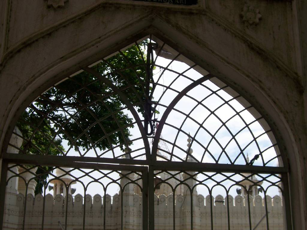 A mosque in downtown Bangalore, viewed through a locked grille.